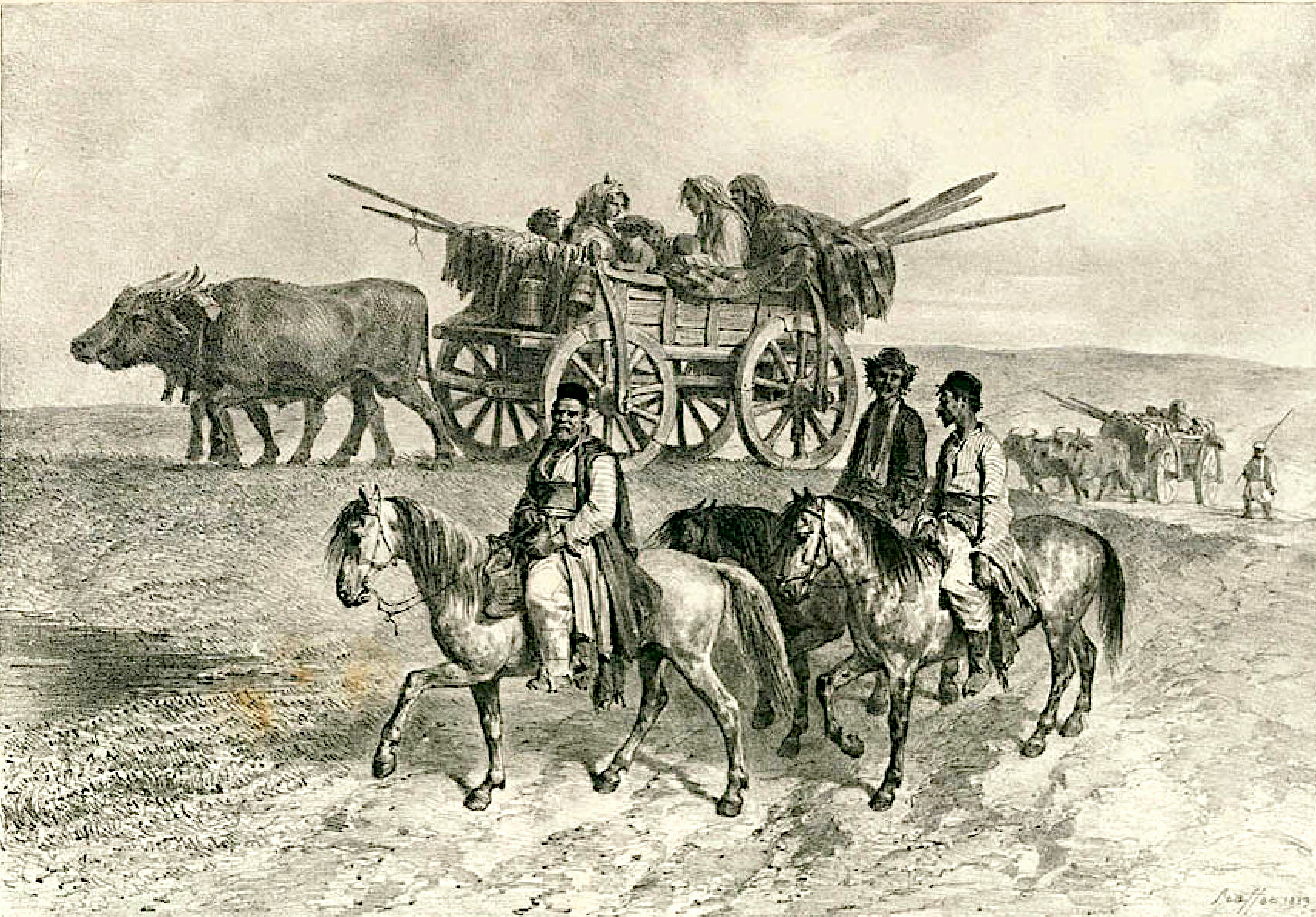 Auguste Raffet (Denis Auguste Marie Raffet): Gypsy family traveling in Moldova